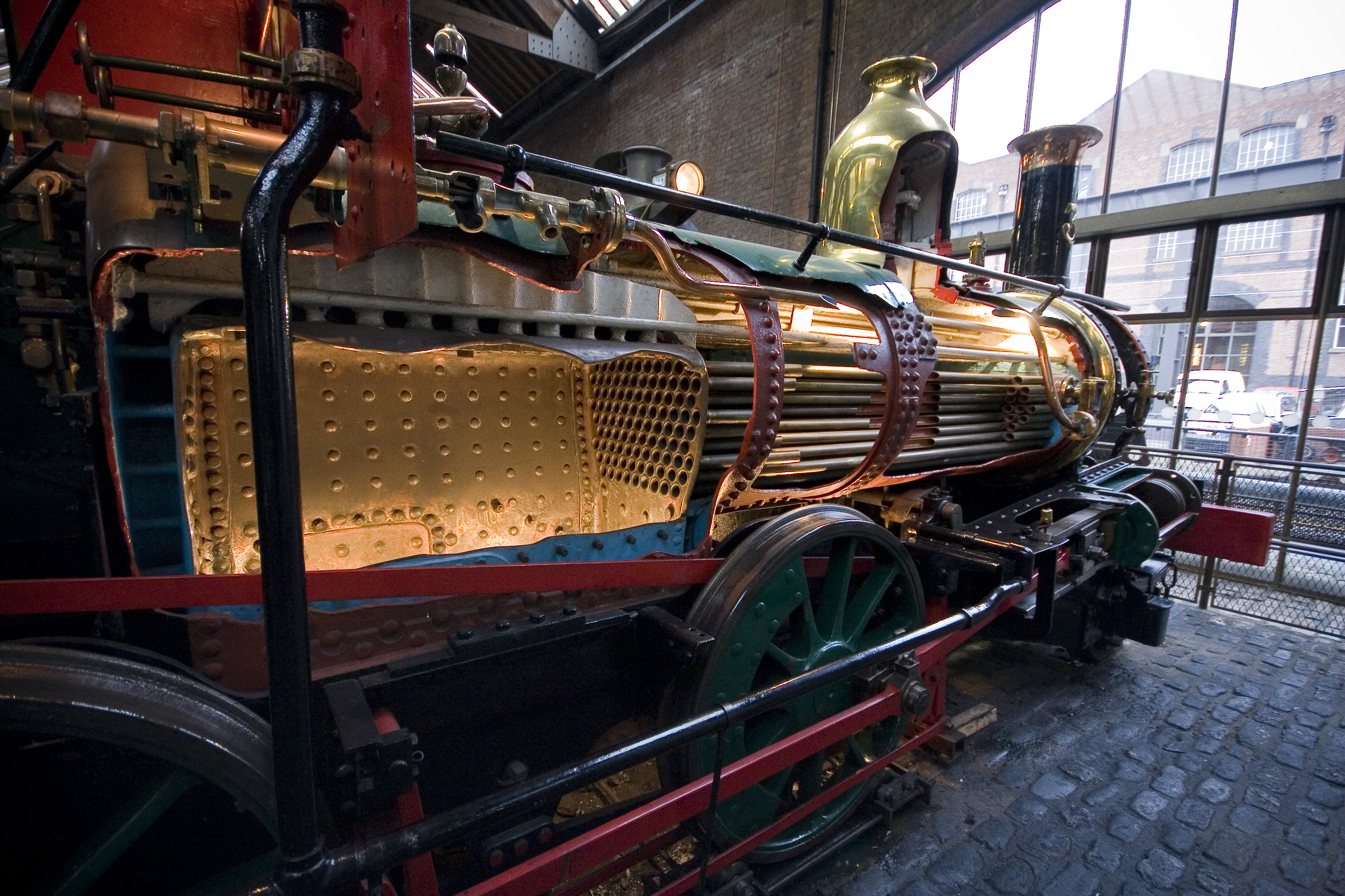 A steam locomotive with the side cut away, showing various components. Isle of Man Railway No. 3 "Pender", sectioned at the Museum of Science and Industry in Manchester.